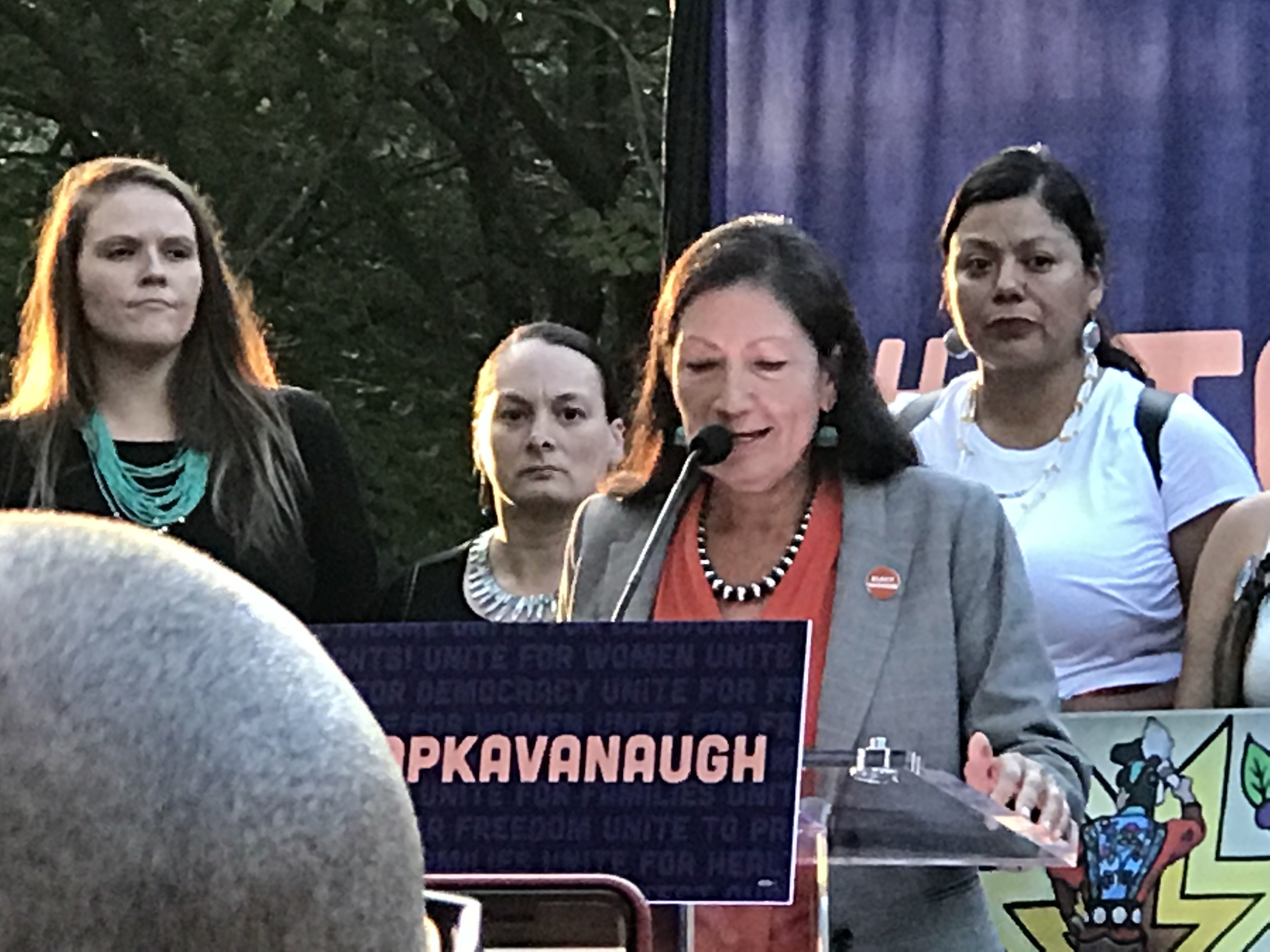 Stop Kavanaugh Rally on US Capitol Grounds - September 4, 2018. Candidate Deb Haaland addresses the crowd.